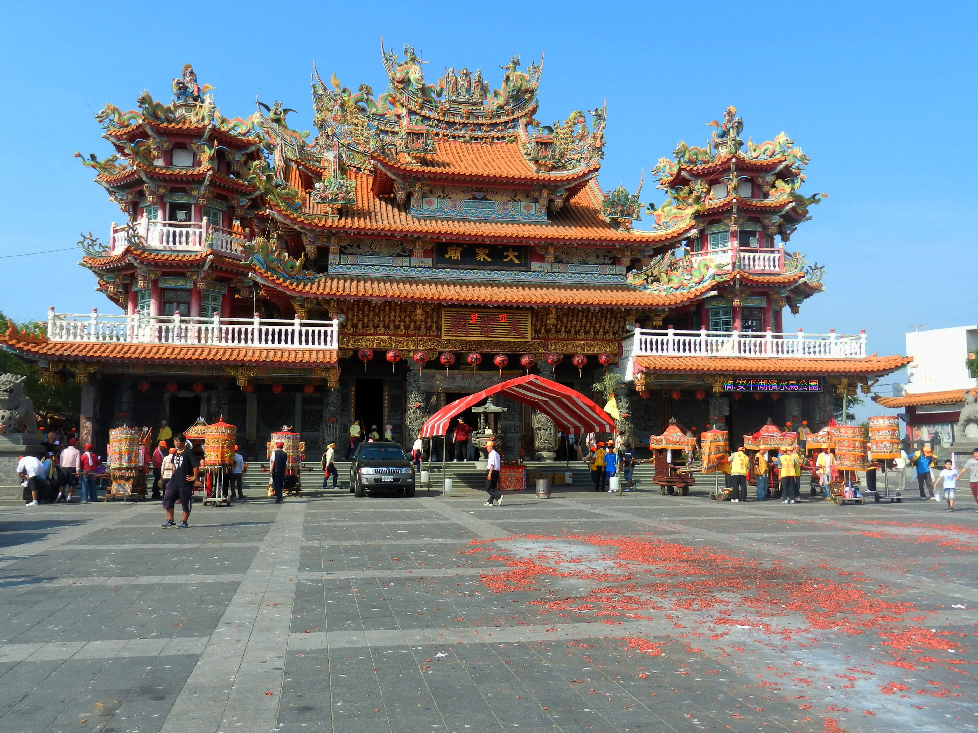 Sicao Dazhong Temple